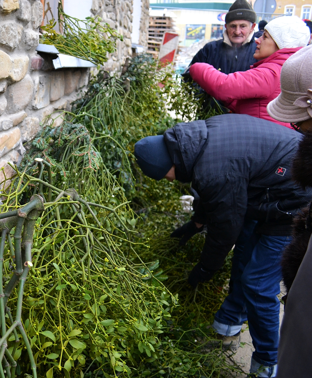 Christmas Mistletoe, Christmas Eve, Poland